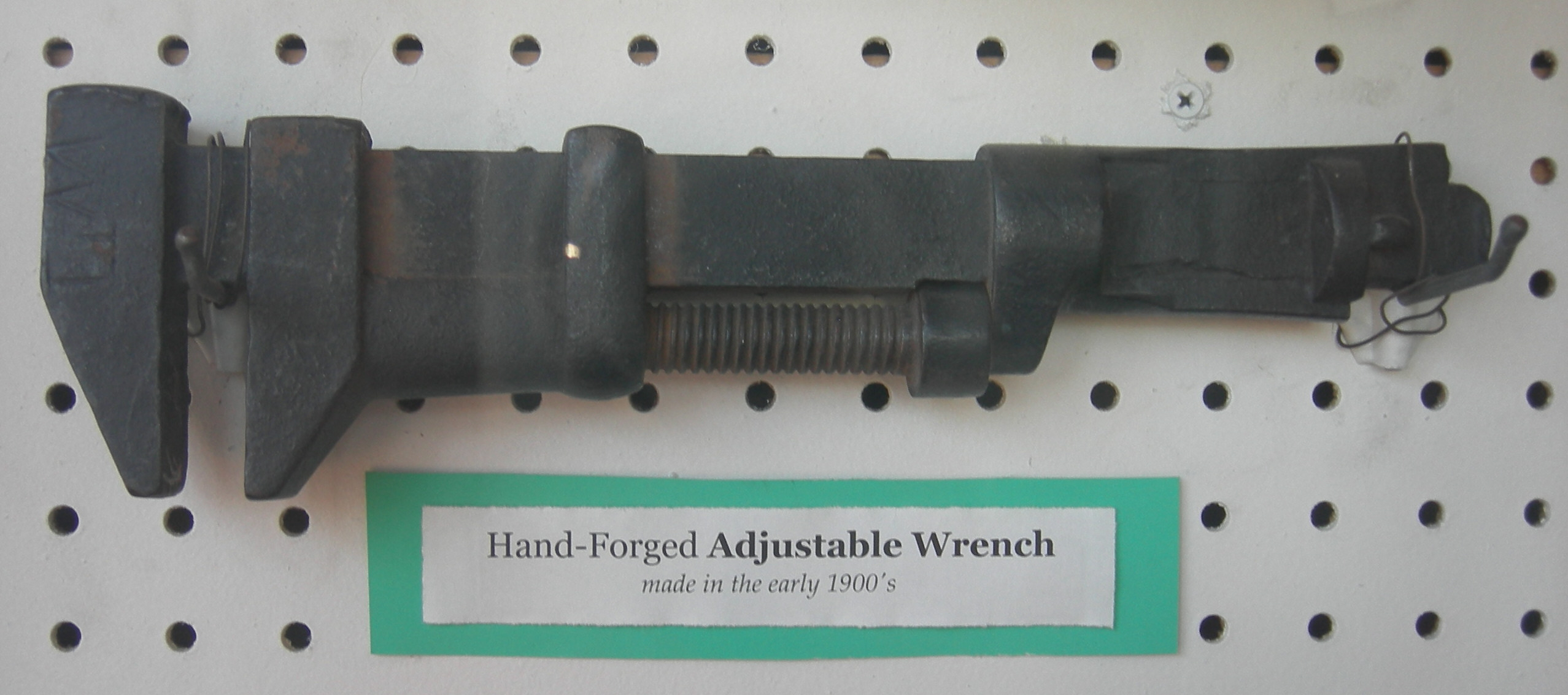 Hand-forged adjustable wrench (early 1900s) on display in the window of Tweedy & Popp Hardware Store, Wallingford neighborhood, Seattle, Washington. This kind of tool is named englishman in Germany